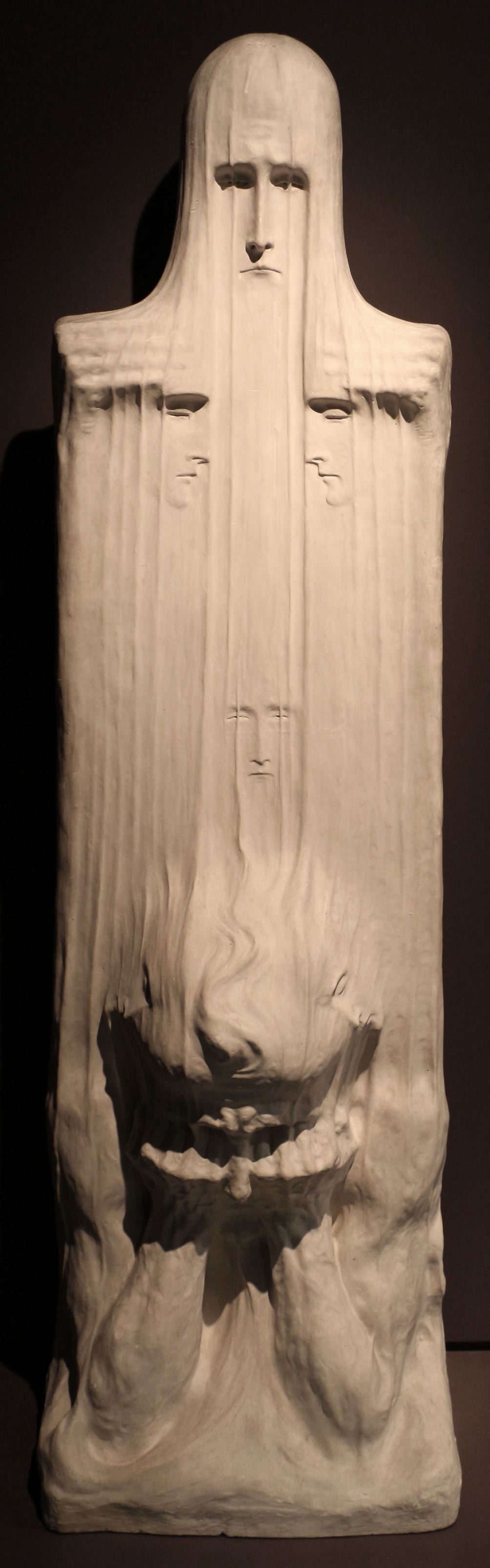 Sculptures in Musée d'Orsay